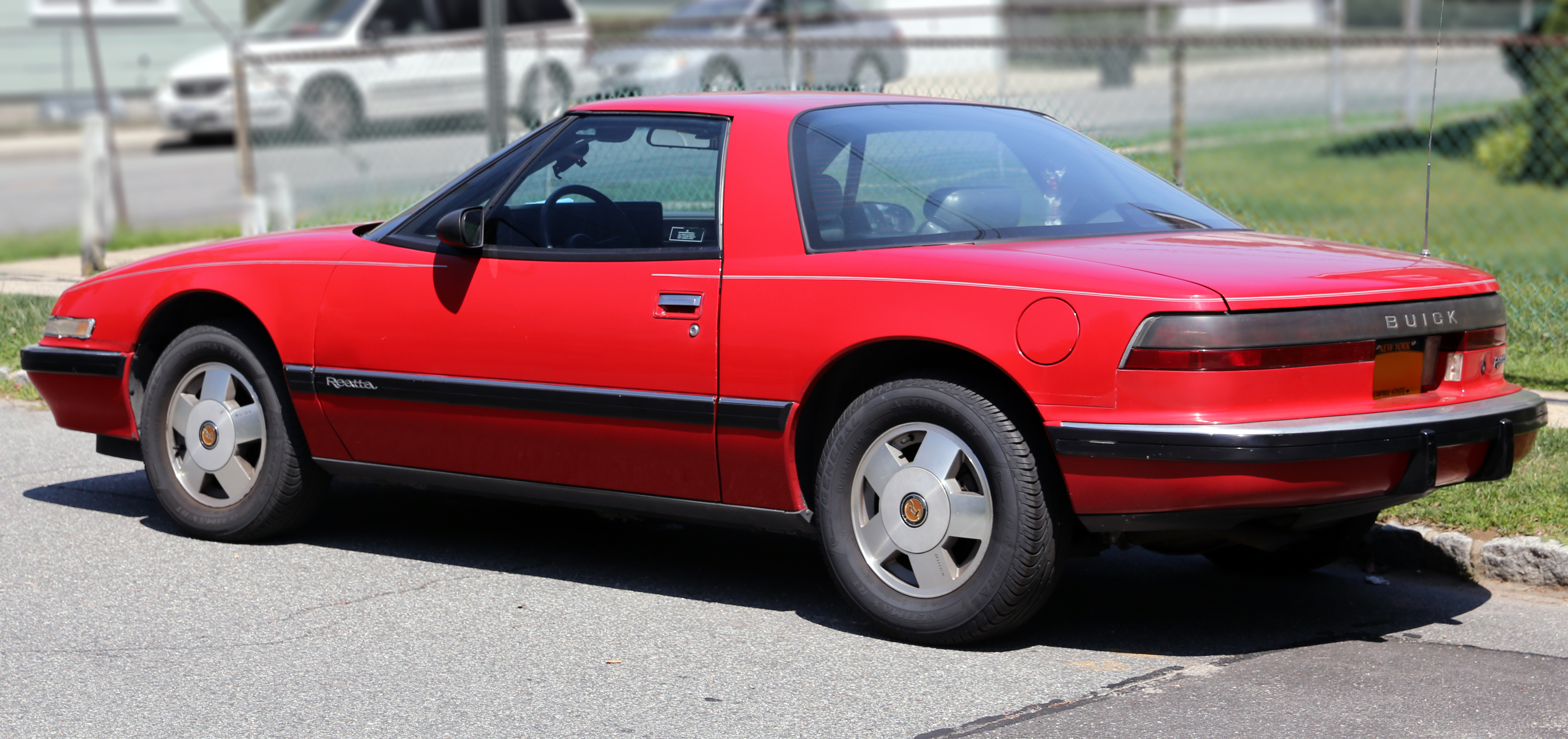 A 1988 Buick Reatta. 4-spd auto and 3.8 litre V6, as per all Reattas.